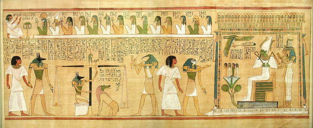 The human spirit is ready for its journey through the underworld. There, the person's heart will be judged by the person's good deeds on earth. If the heart is found to be pure he will be sent to live for all eternity in the beautiful 'Field of Reeds', or possibly sent to Ammit.